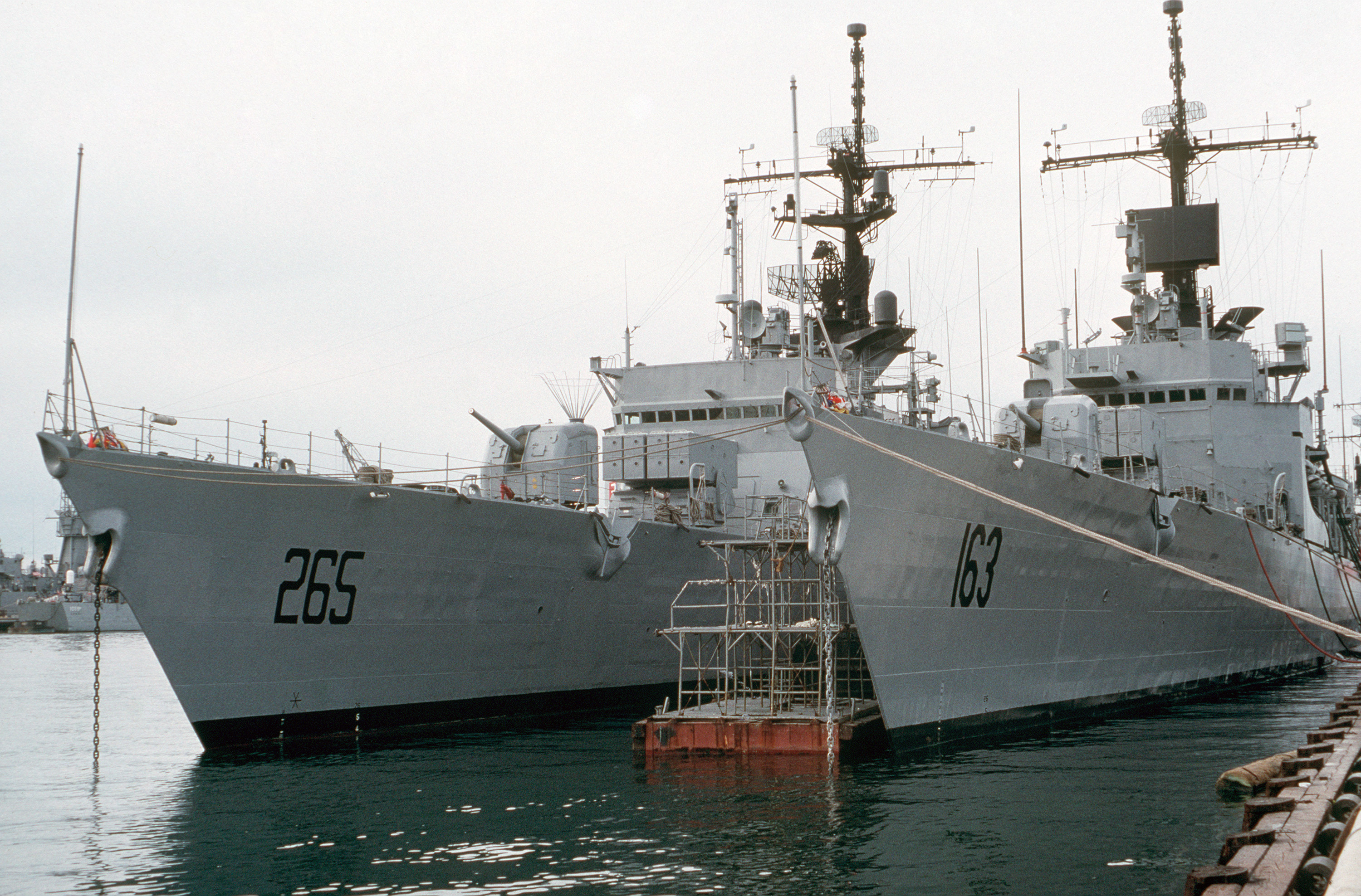 A port bow view of the former Guided Missile Frigate USS BROOKE (FFG 1) and the former Frigate USS O'CALLAHAN (FF 1051) docked at a pier during the commissioning ceremony by which the ships are transferred to the Pakistani navy. The BROOKE is being commissioned PNS KHAIBAR (D 163) while the O'CALLAHAN becomes PNS ASLAT (F 265). Location: NAVAL STATION, SAN DIEGO, CALIFORNIA (CA) UNITED STATES OF AMERICA (USA)